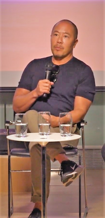 2019 NDA Winners' Salons: Ivan Poupyrev and Derek Lam | Design and the Body Celebrate the 20th anniversary of the National Design Awards at Cooper Hewitt! In this 20 minute talk, Ivan Poupyrev | Interaction Design Award Winner, and Derek Lam | Fashion Design Award Winner talk with Andrea Lipps, Cooper Hewitt Associate Curator for Contemporary Design on the topic "Design and the Body" ABOUT NATIONAL DESIGN WEEK Launched in 2006, National Design Week is held each year in conjunction with the National Design Awards program. During National Design Week, Cooper Hewitt’s award-winning Education Department hosts a series of free education programs centered around the vision and work of the National Design Award winners. National Design Week culminates with the National Design Awards Gala. View all programs and events here. National Design Week is made possible by major support from Target. Additional support is provided by Altman Foundation, Siegel Family Endowment, and The Richard and Jean Coyne Family Foundation.